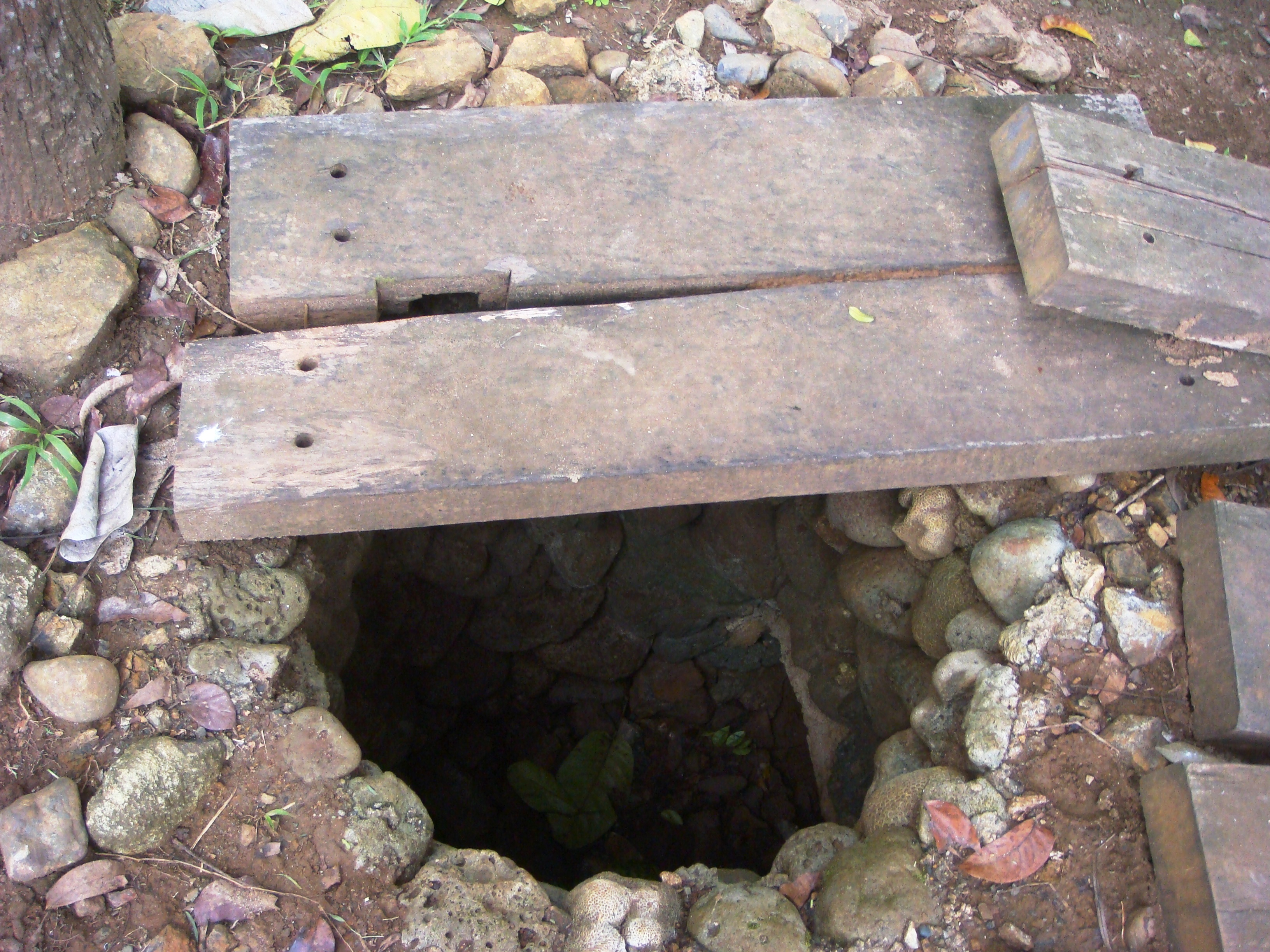 The Ermita Hill chapel and the ancient viewing point and tunnel site is said to be Old Baler, Aurora, Philippines' watchpoint and the highest peak of the old town.. With the bell tower's excellent vantage point, the people of Baler were warned of raiding pirates (moros). This historic secret tunnel devised by the people of old Baler as escape route during the frequent raids of moro pirates. The starting point is said to be from a location in Barangay Santa Elena leading up to this site at Ermita Hill.[1] The underground tunnel enabled the families to run to Ermita Hill, safe from the tsunami which was named Tromba Marina (tidal wave) that struck this town in 1735.[2] The tunnel leads to Baler's Sitio Castillo that was used as a garrison by Spanish forces. The Spaniards improved the tunnel in the 17th century, but it was originally built by the aboriginal Dumagat, the first settlers of Aurora, to provide an escape path for residents running from pirates coming in from the bay.[3]